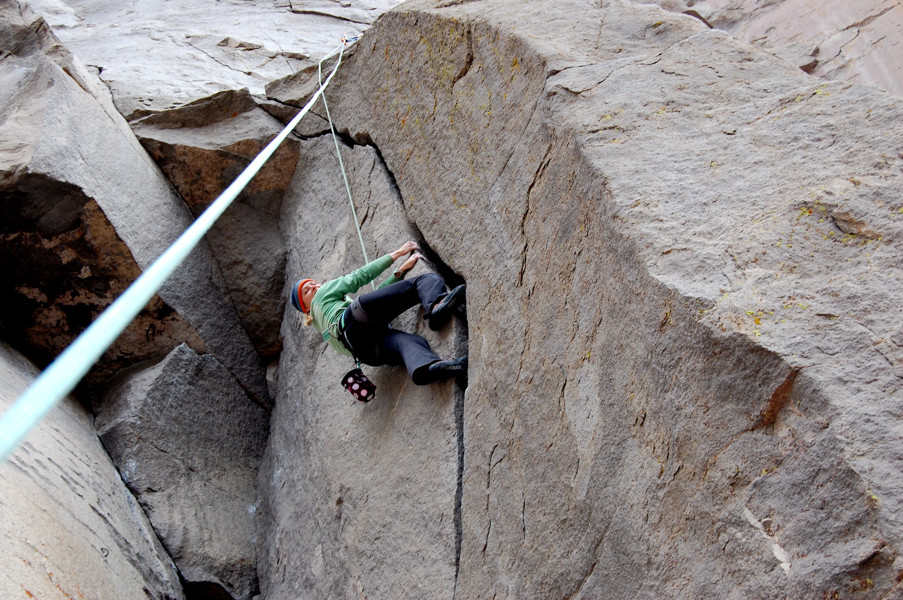 A toproped climber performing a layback maneuver whole climbing at Owens River Gorge.